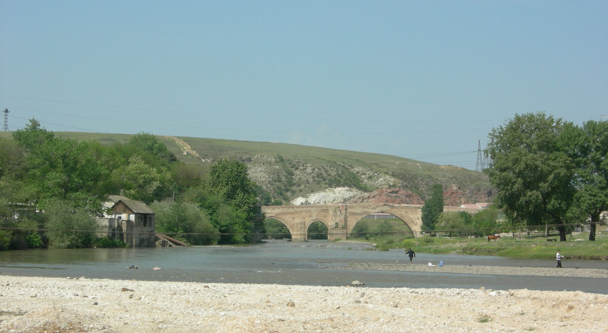 Khrami River with the Red Bridge, Azerbaijan-Georgia border